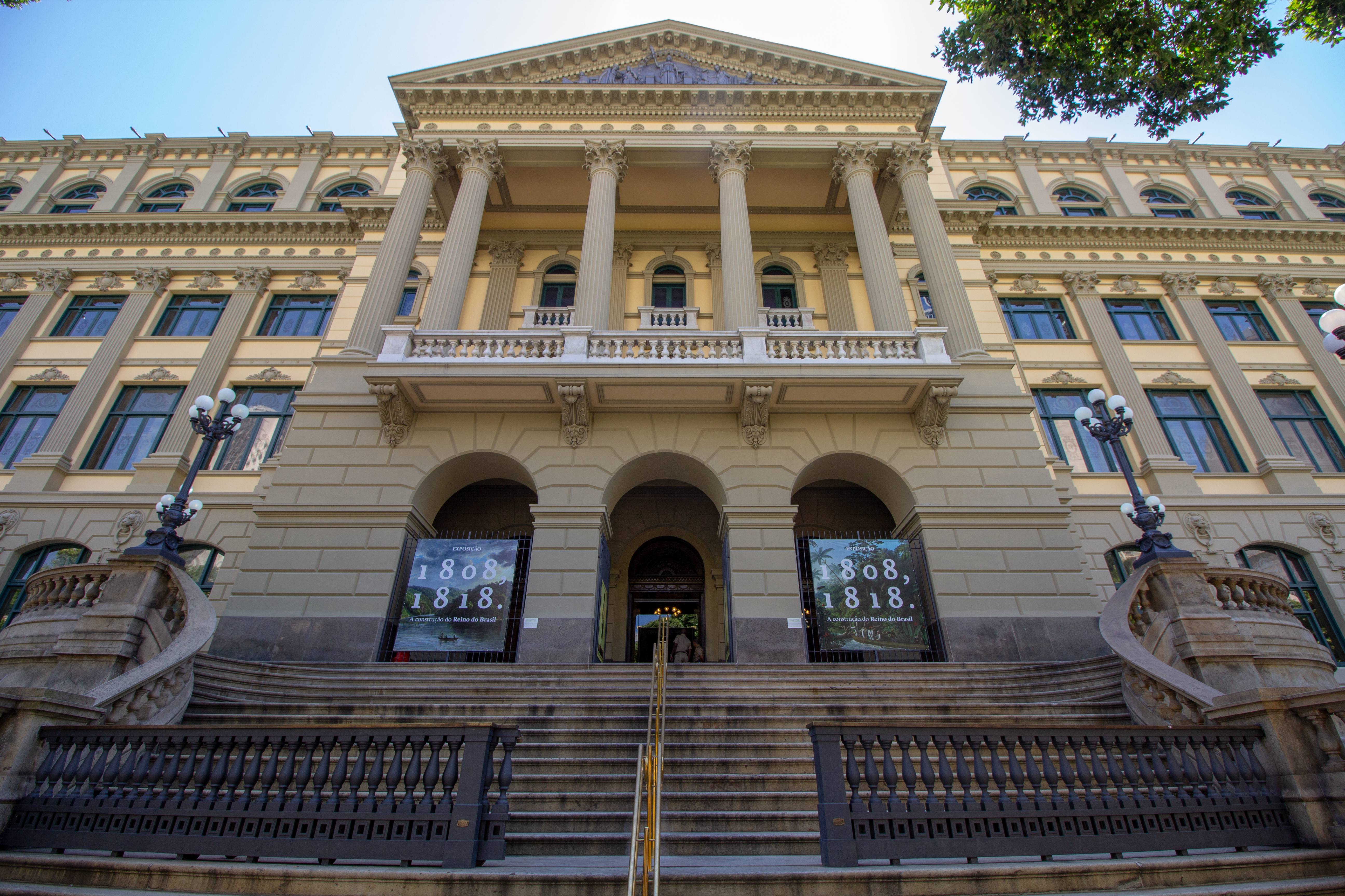 At Rio de Janeiro